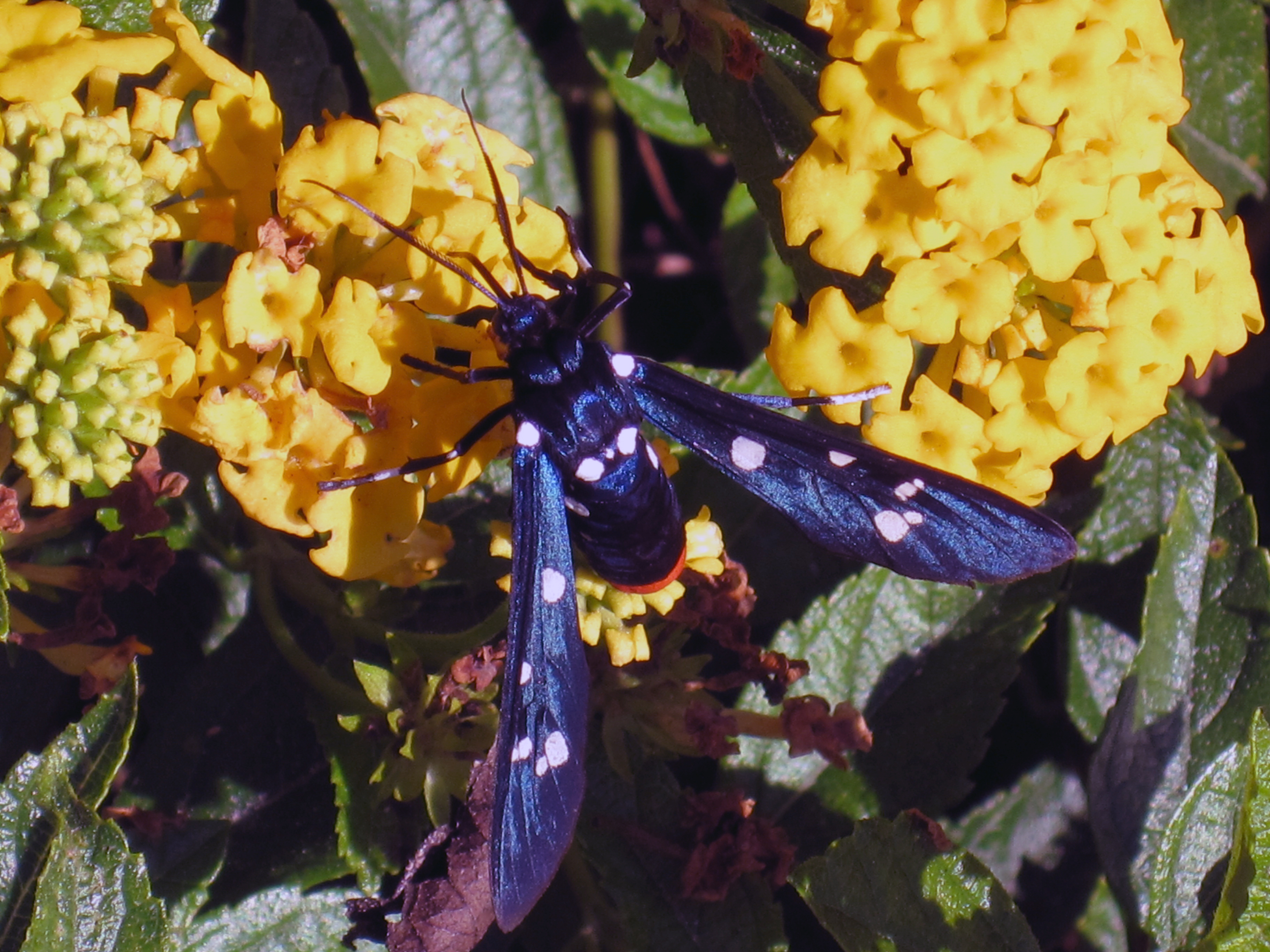 S. epilais jucundissima, the North American subspecies of Oleander Moth, clearly displaying its blue iridescence. This photograph was taken in Savannah, GA.